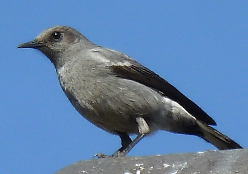 Mountain chat, male, near Tierpoort, Pretoria. Besides the grey male form, there are also black forms in the nominate and mainly South African race. Females have brownish plumage.